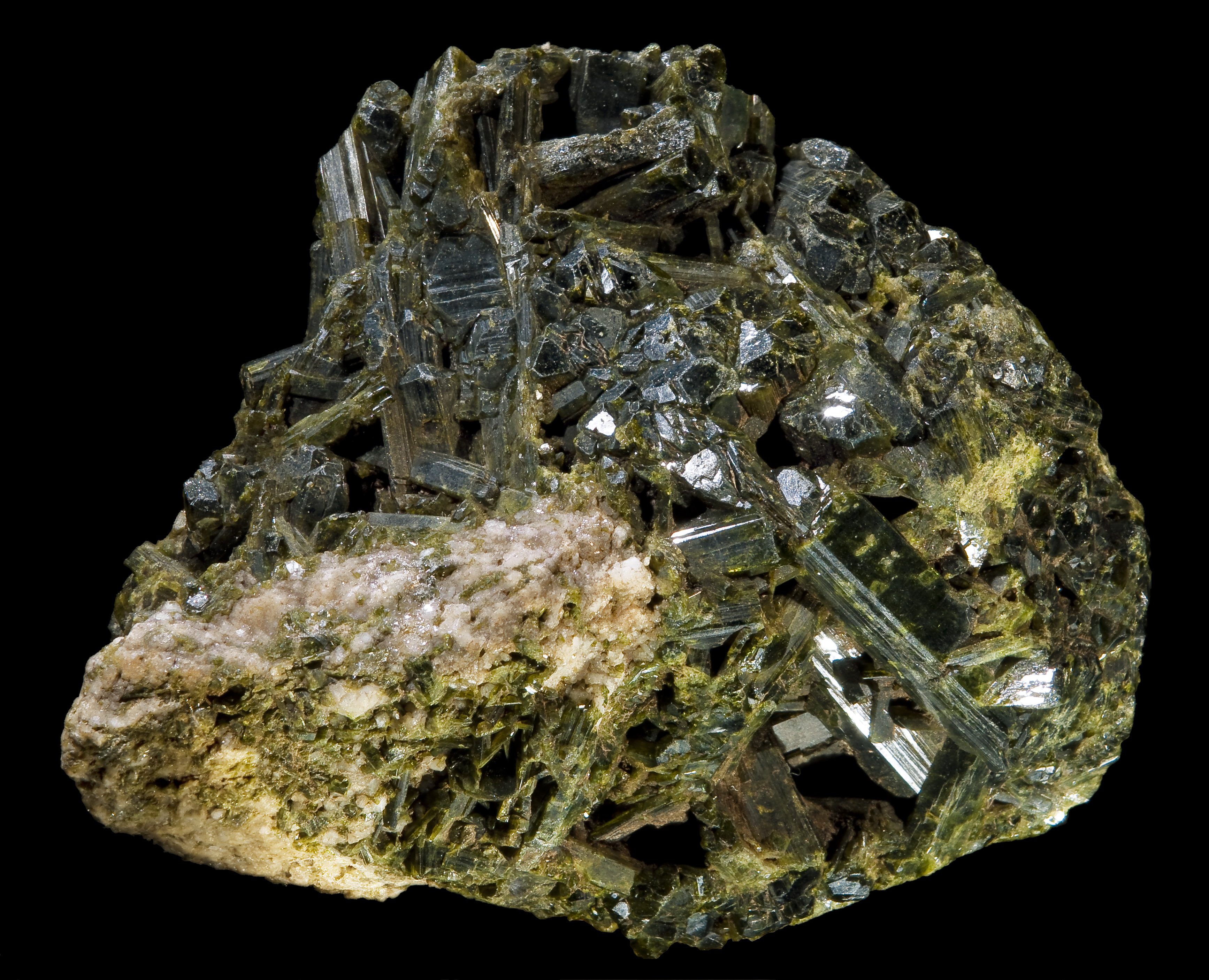 Epidote Locality : Matsaborivaky, Vohémar District, Sava (Northeastern) Region, Antsiranana Province, Madagascar Size : 8.5 x 8.2